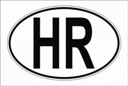 Vehicle auto code for Croatia